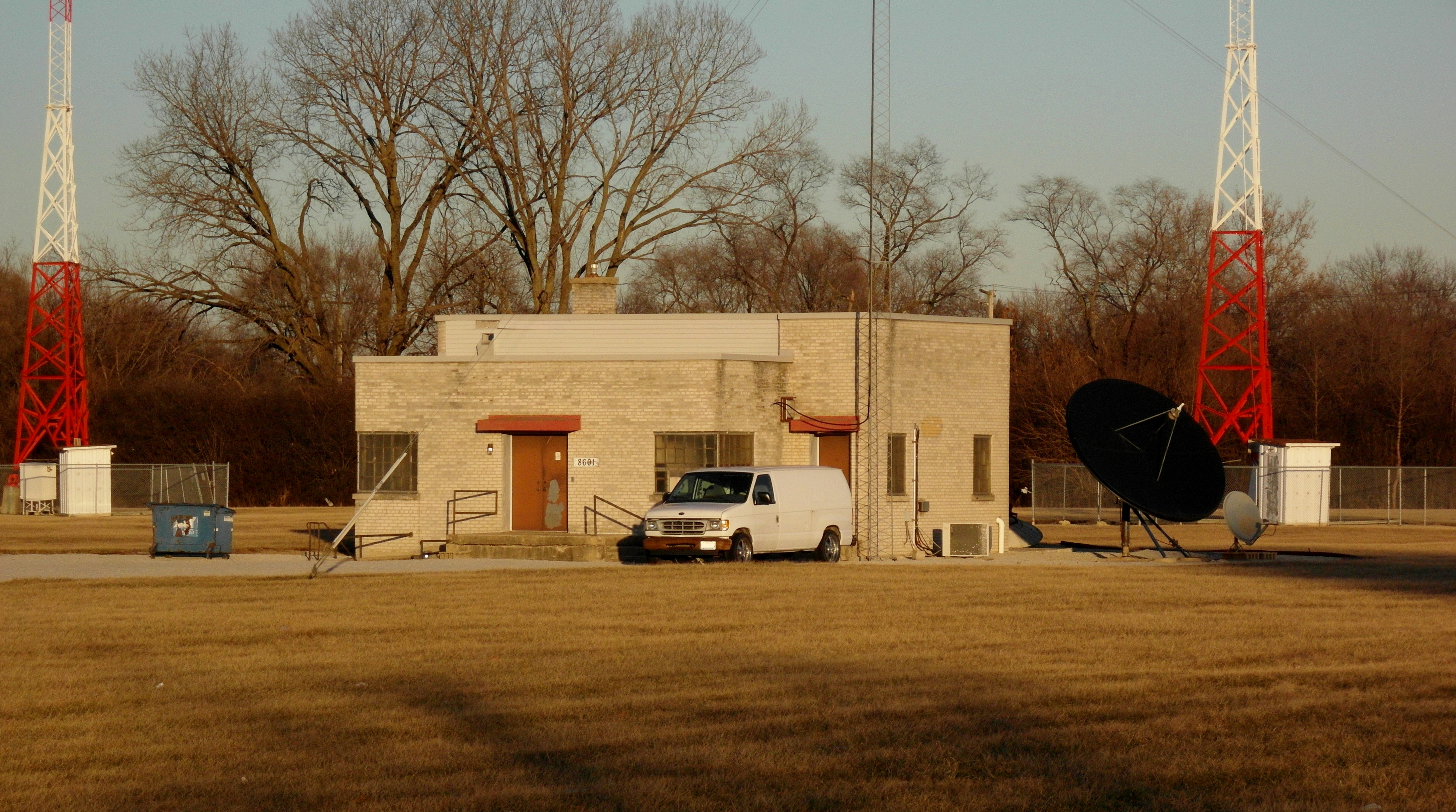 WGRB's transmitter building at 8601 S. Kedzie.